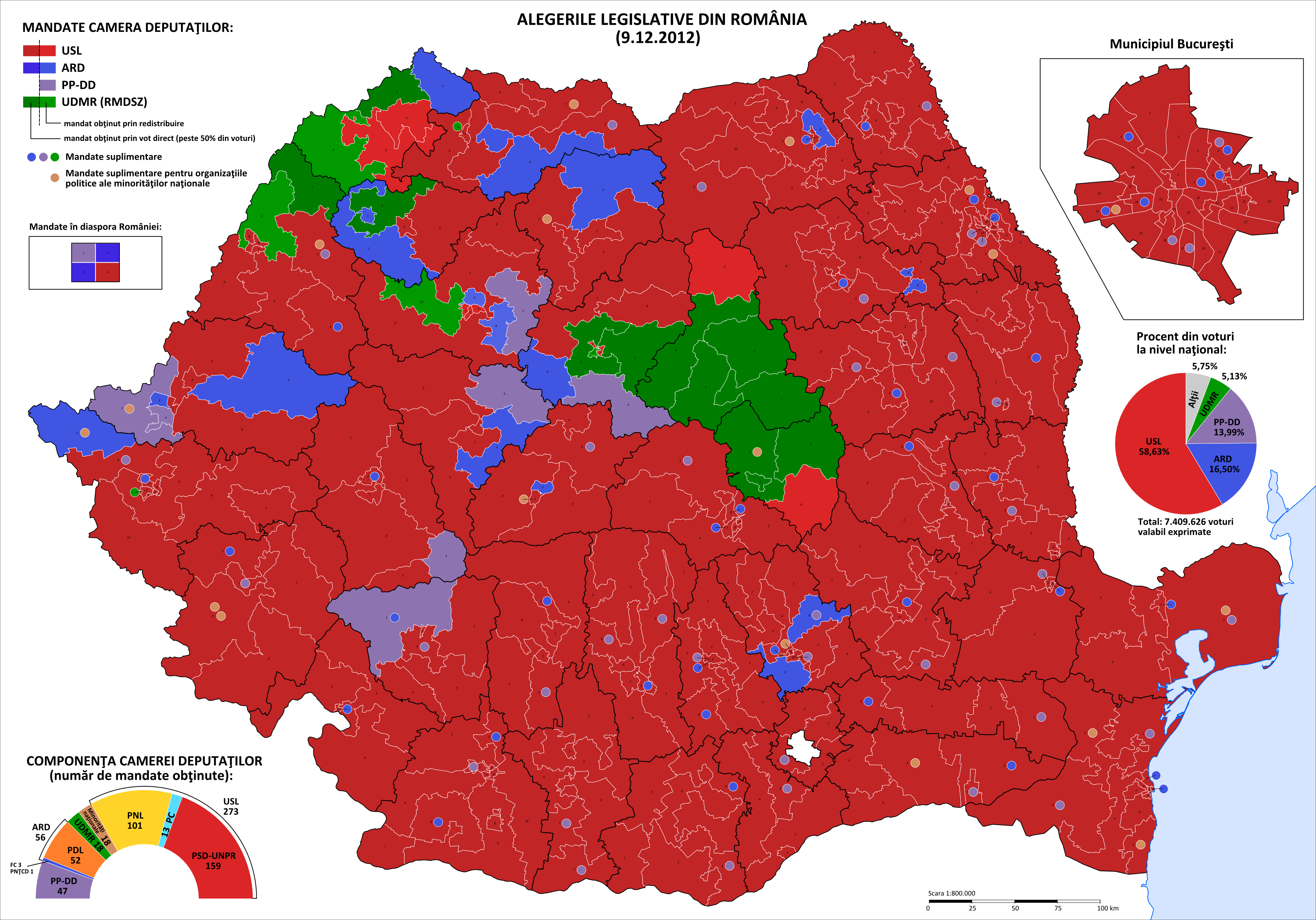 Results of the 2012 Romanian legislative election - Chamber of Deputies Software used: OpenJUMP GIS ( and Inkscape ( Note: In case of use/adaptation/distribution this work must be attributed to politicalcolors.ro and Andrein and must carry an identical license.